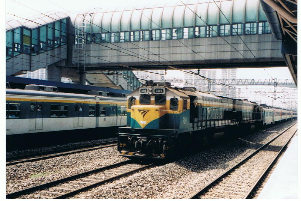 Korail Class 7400 double header on Gyeongbu Line, year 2000.